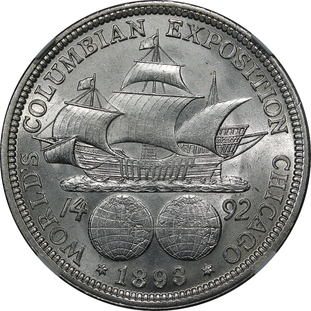 The reverse of the Columbian half dollar commemorative coin minted in 1892 and 1893. This particular coin is dated 1893 and is graded MS62 by the Numismatic Guaranty Corporation (NGC) and housed in a plastic NGC EdgeView holder.